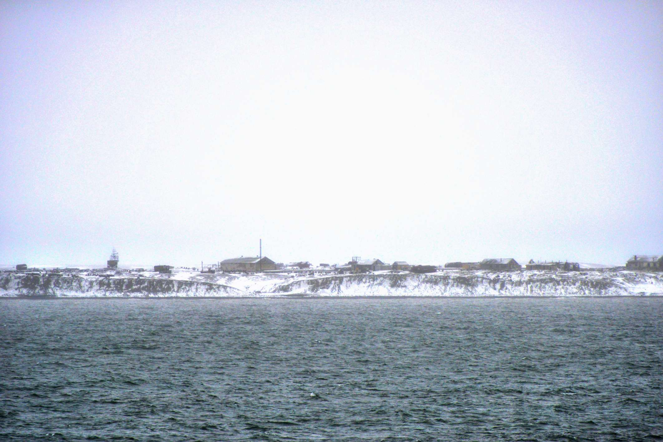 Arctic research station on Vize Island (Kara Sea, Russia; 79°27’N, 76°26’E)